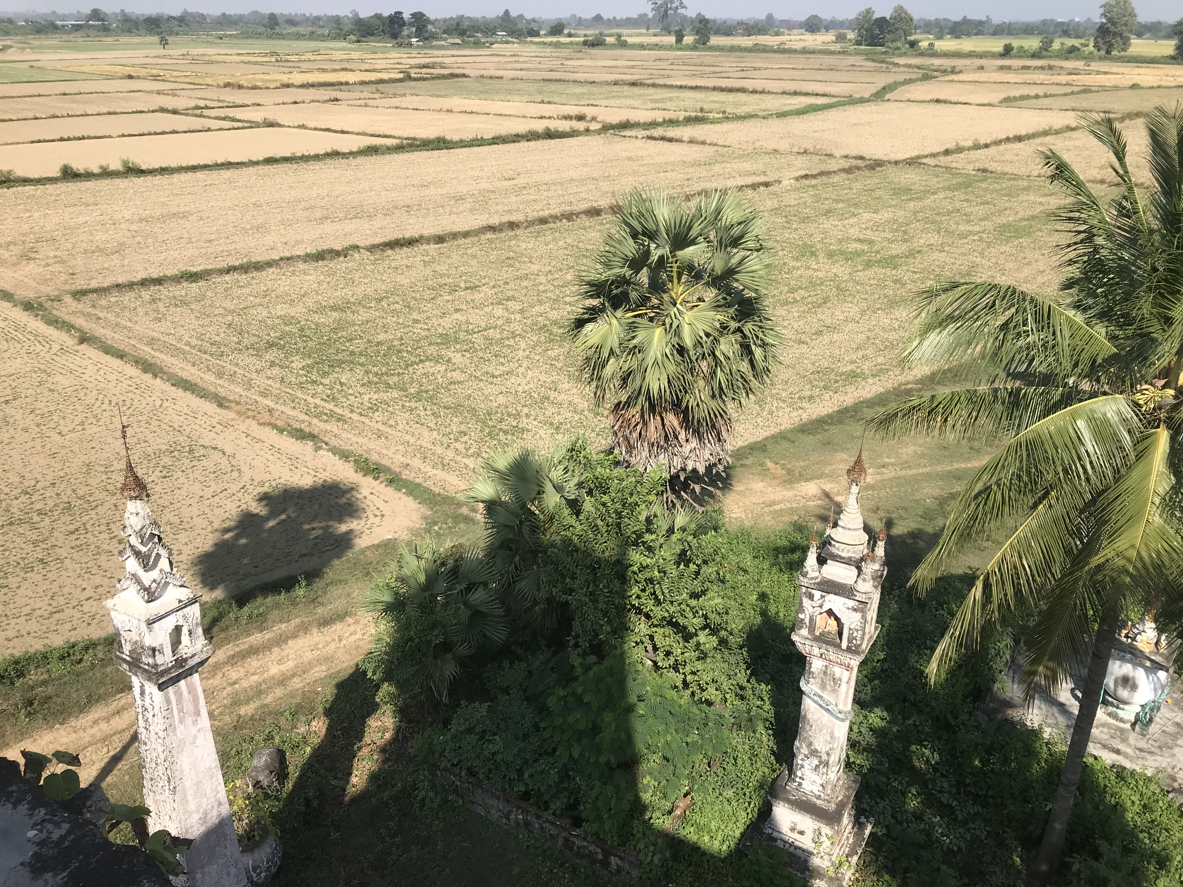 ဖောင်တော်ဦးဘုရား